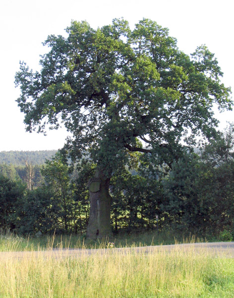 Pešek's oak tree near Těně, Czech republic.